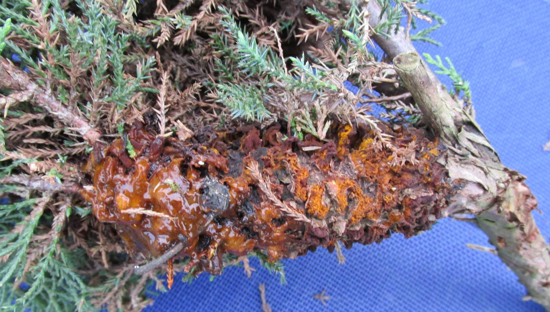 Gymnosporangium sabinae on Juniperus pfitzeriana